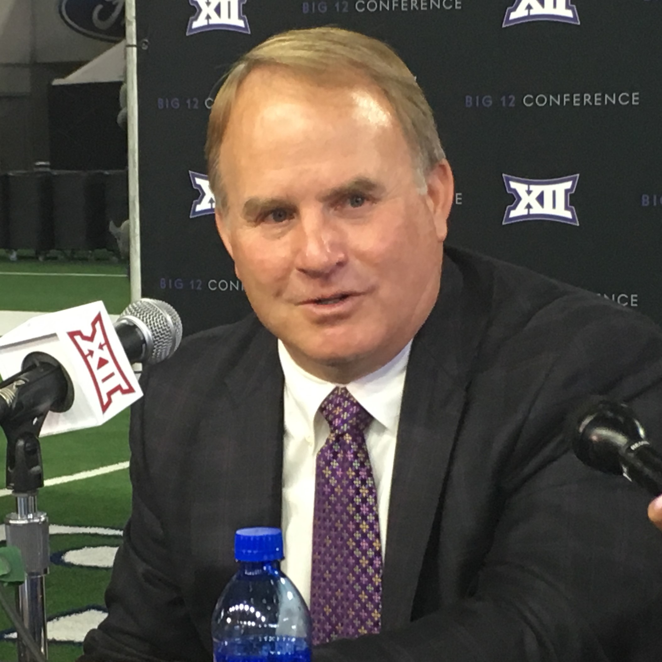 Gary Patterson, head coach of the TCU Horned Frogs team, at the 2017 Big 12 Conference Media Days in Frisco, Texas.